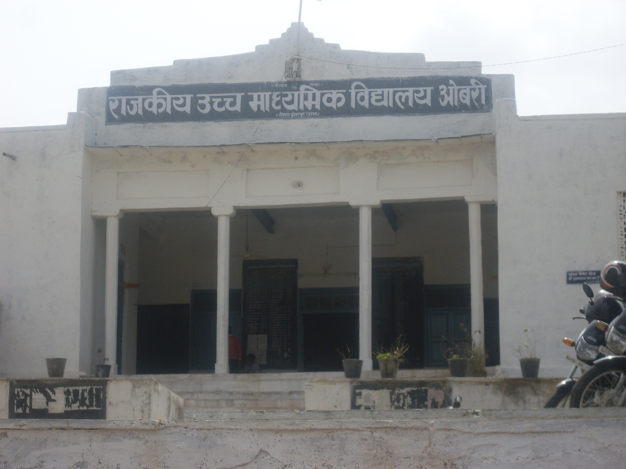 school